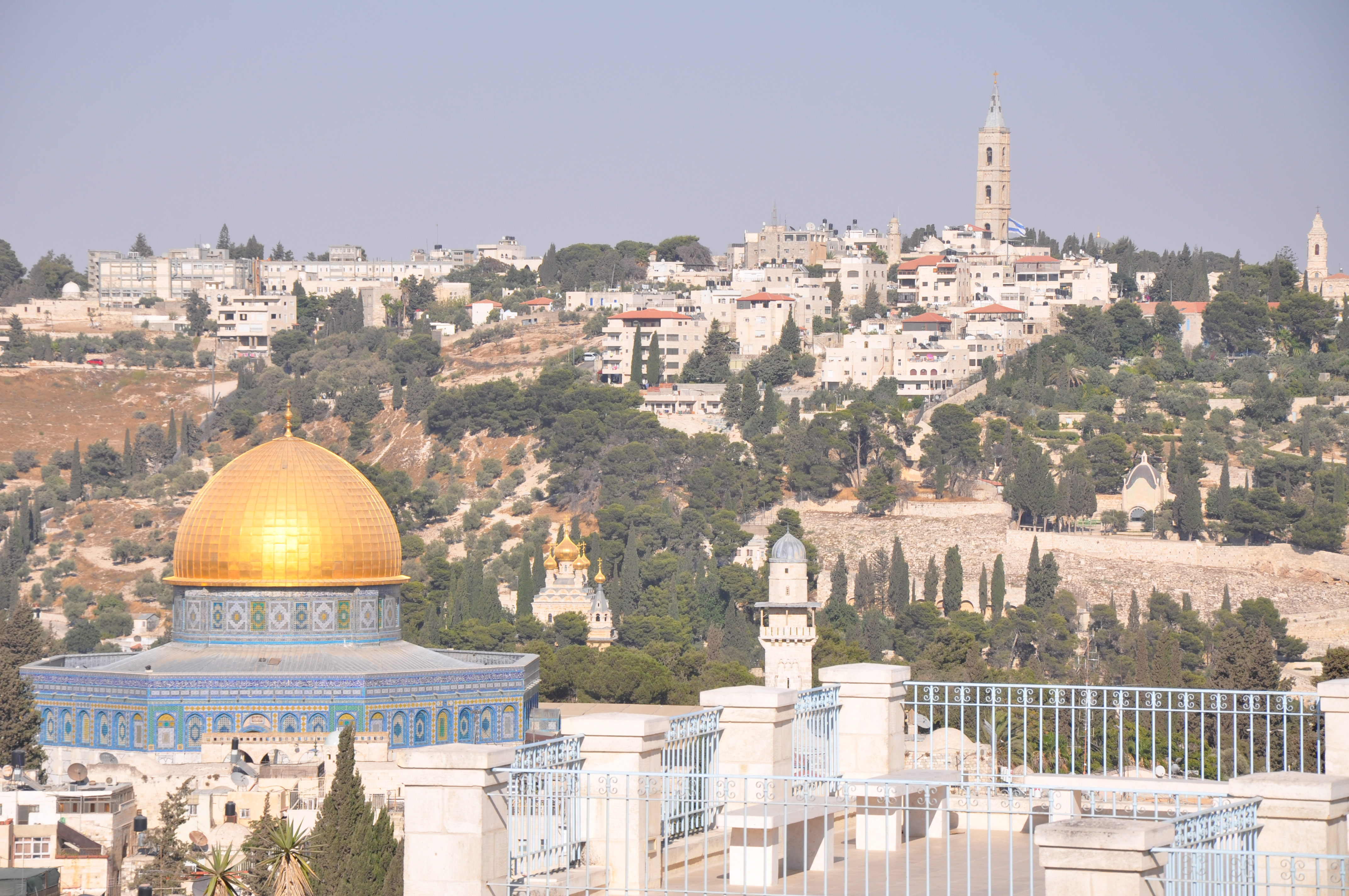 The Dome of the Rock (Arabic: مسجد قبة الصخرة) is a shrine located on the Temple Mount in the Old City of Jerusalem. The domed basilica structure was patterned after the Christian Church of the Holy Sepulcher. It was initially completed in 691 CE at the order of Umayyad Caliph Abd al-Malik during the Second Fitna, becoming the first work of Islamic architecture. The site's significance stems from religious traditions regarding the rock, known as the Foundation Stone, at its heart, which bears great significance for Jews, Christians and Muslims. It is considered “the most contested piece of real estate on earth"